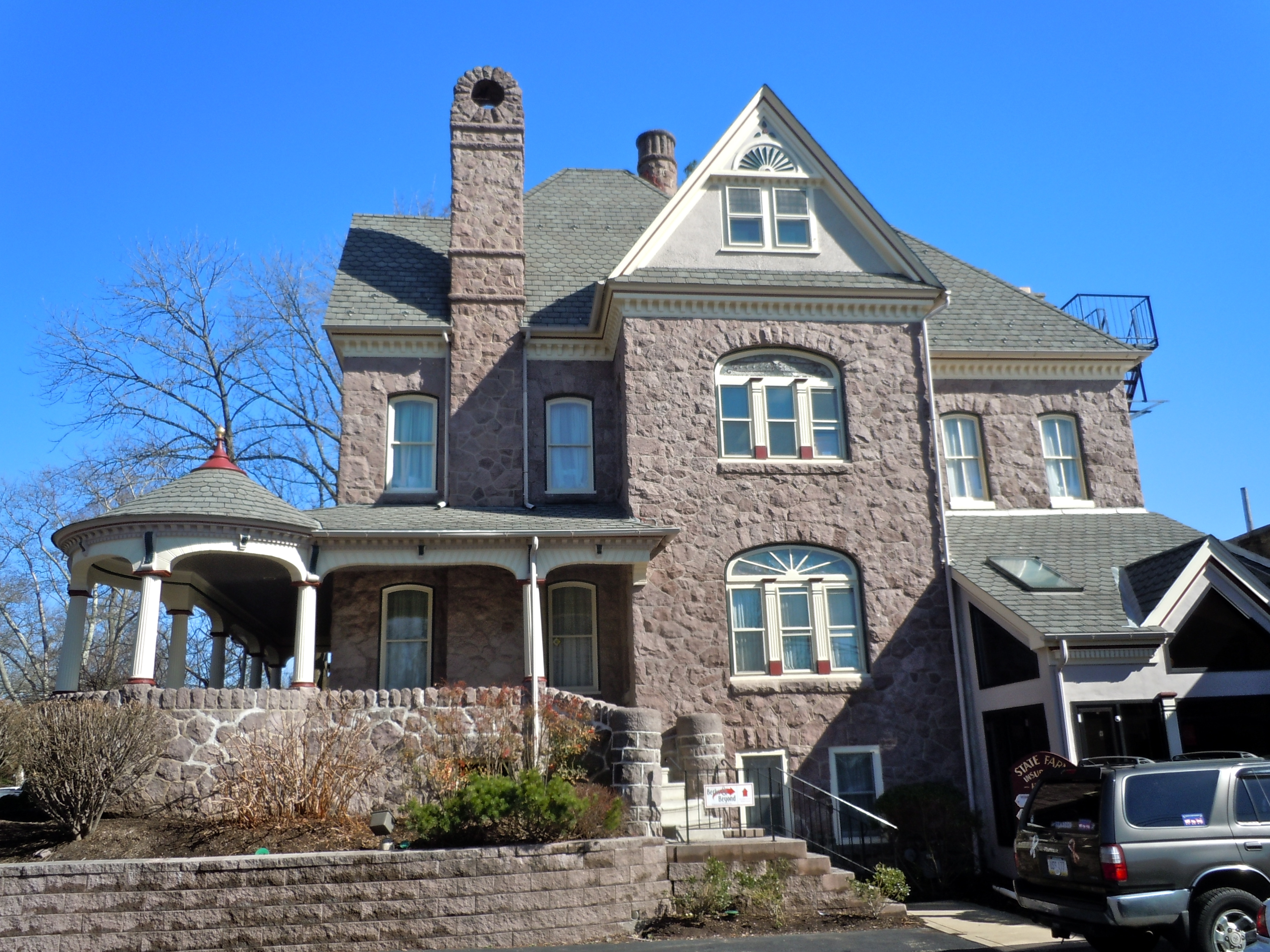 Grubb Mansion on the NRHP since May 1, 1991. At 1304 High Street, Pottstown, Pennsylvania. Home of an automobile and bicycle manufacturer. Henry Ford slept here.